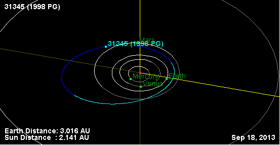 The orbit of 31345 PG